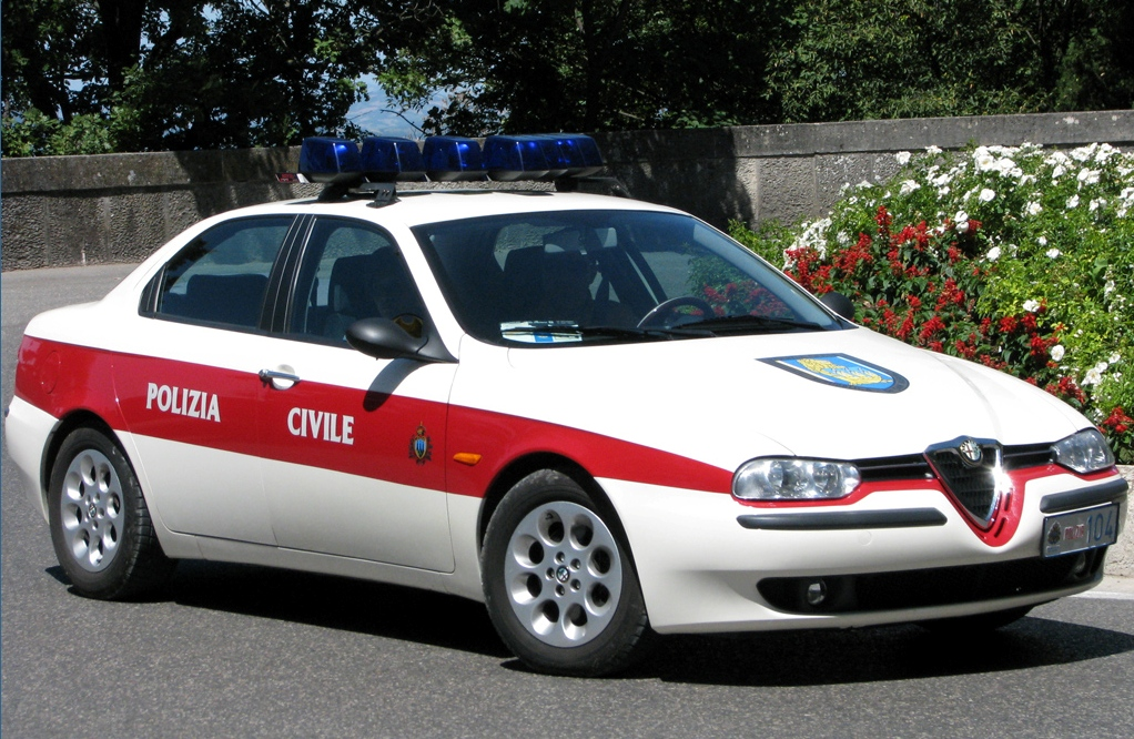 Alfa Romeo 156 della Polizia Civile